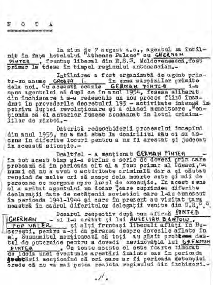 Report on the activities of former political prisoners Gherman Pântea and Aurelian Bentoiu, kept under surveillance by undercover agents of the Securitate (Romania's secret police).